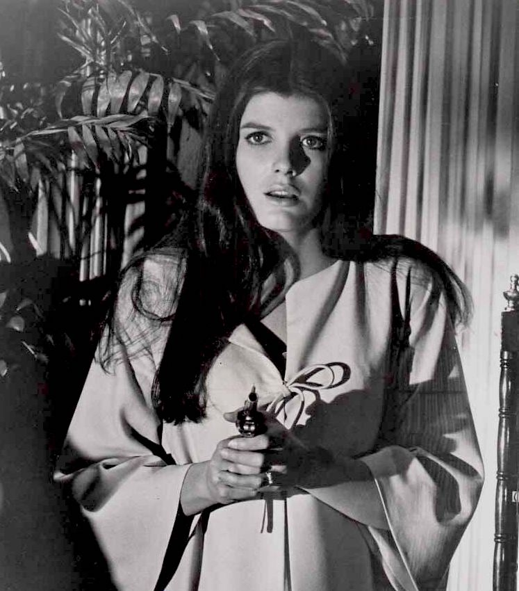 Katharine Rosse in publicity photo for Games (1967)